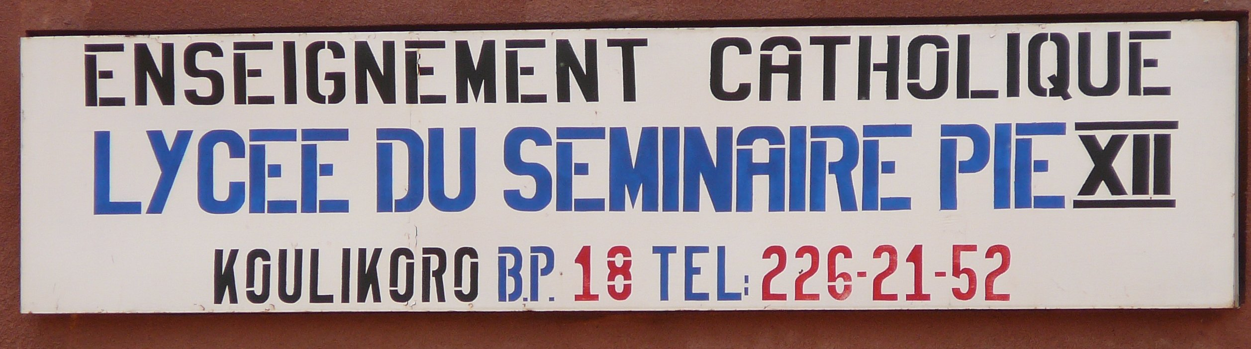 Ici dans l´enceinte de ce lycée, a été construite la plus grande UDDT de ce projet en 2000/1. Ce lycée a produit une fois la plus grande quantité seulement pendant la courte période d'évaluation de l´Université IPR/IFRA à Katabougou. Here, at the location of this school, the largest UDD toilet building of this project was built 2000/1.This school delivered once the largest quantity of urine during the only short evaluation period to the university IPR/IFRA in Katabougou. (Photo by Stefan Hofstetter)